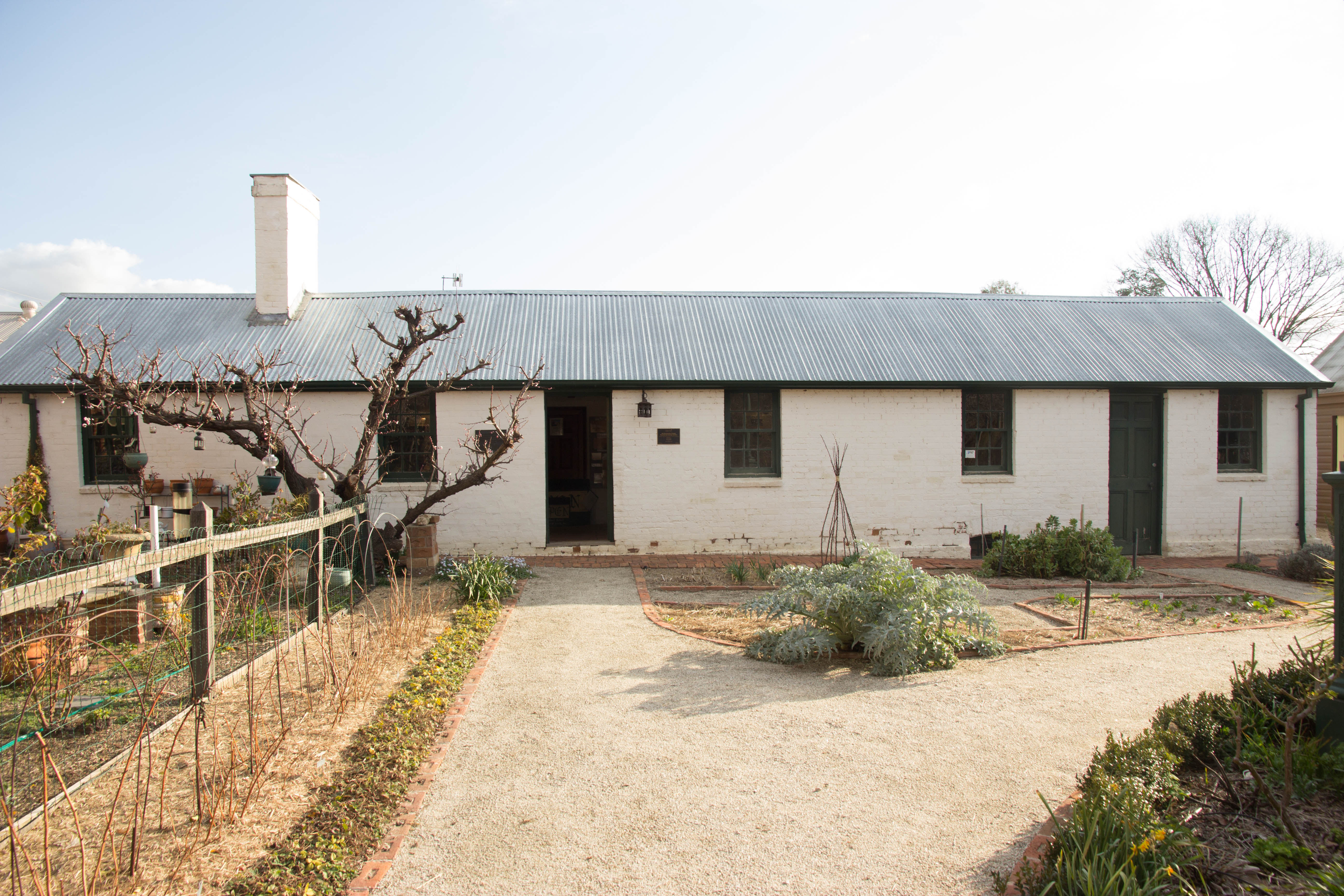 Heritage-listed cottages in Bathurst, New South Wales in late winter, 2018